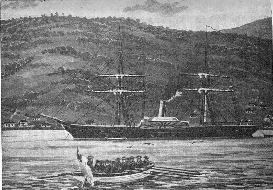 H.M.S. Driver.